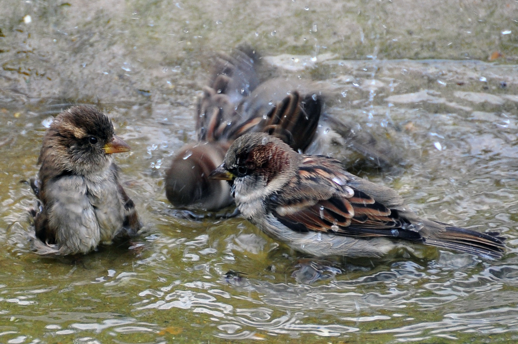 House Sparrows bathing in England.